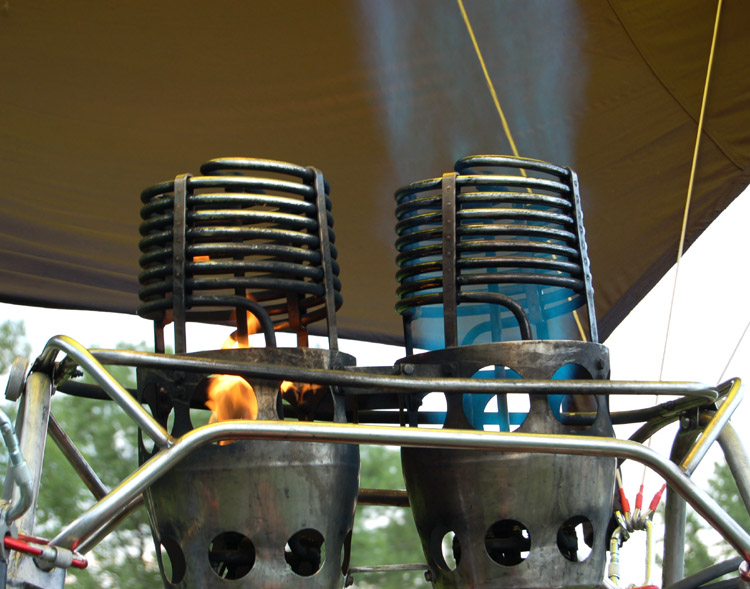 Detail of Hot air balloon burners